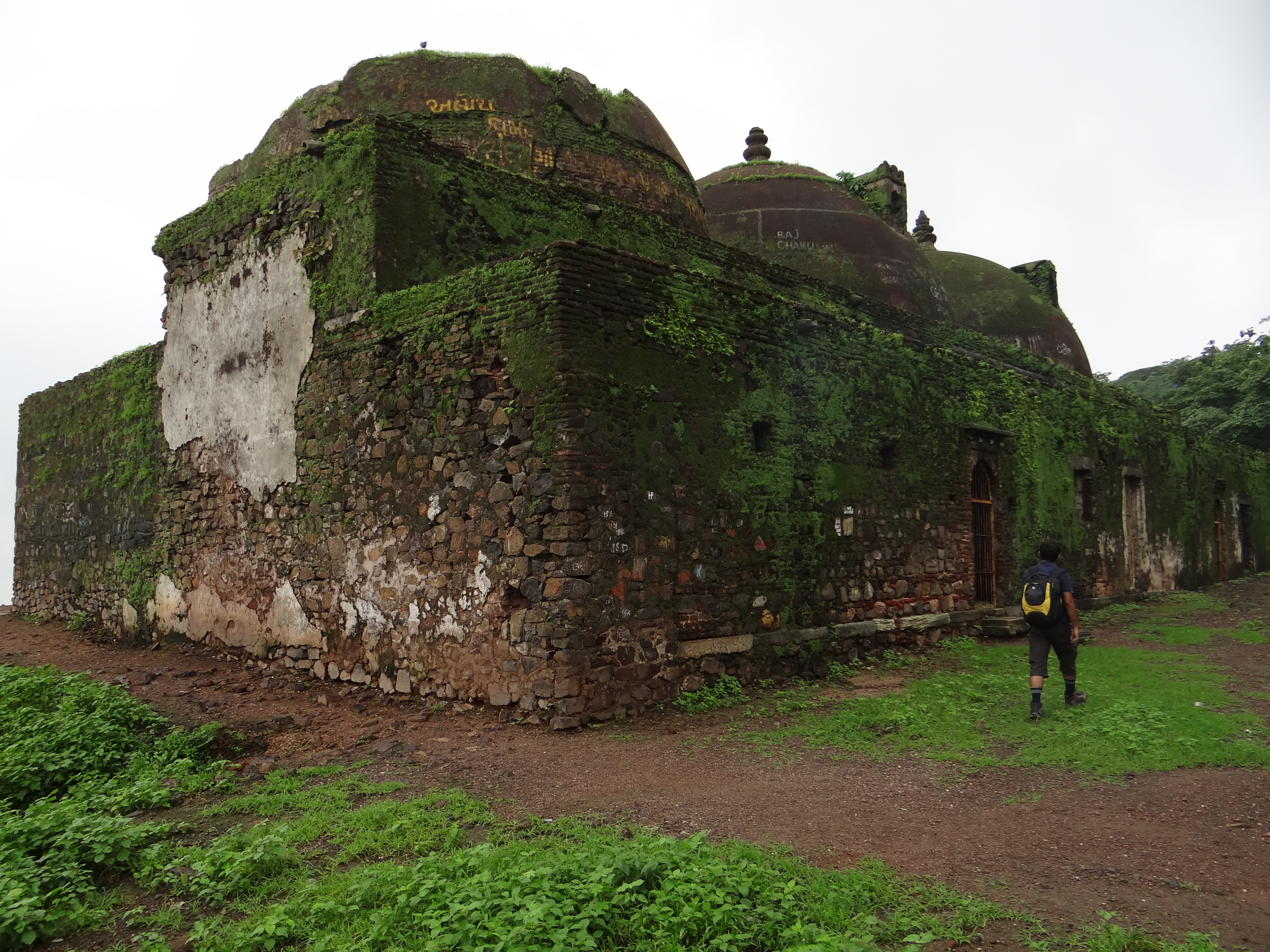 Bawa Man's Mosque has identical features except the arch-dome system i.e arcuate style employed in construction of this mosque.